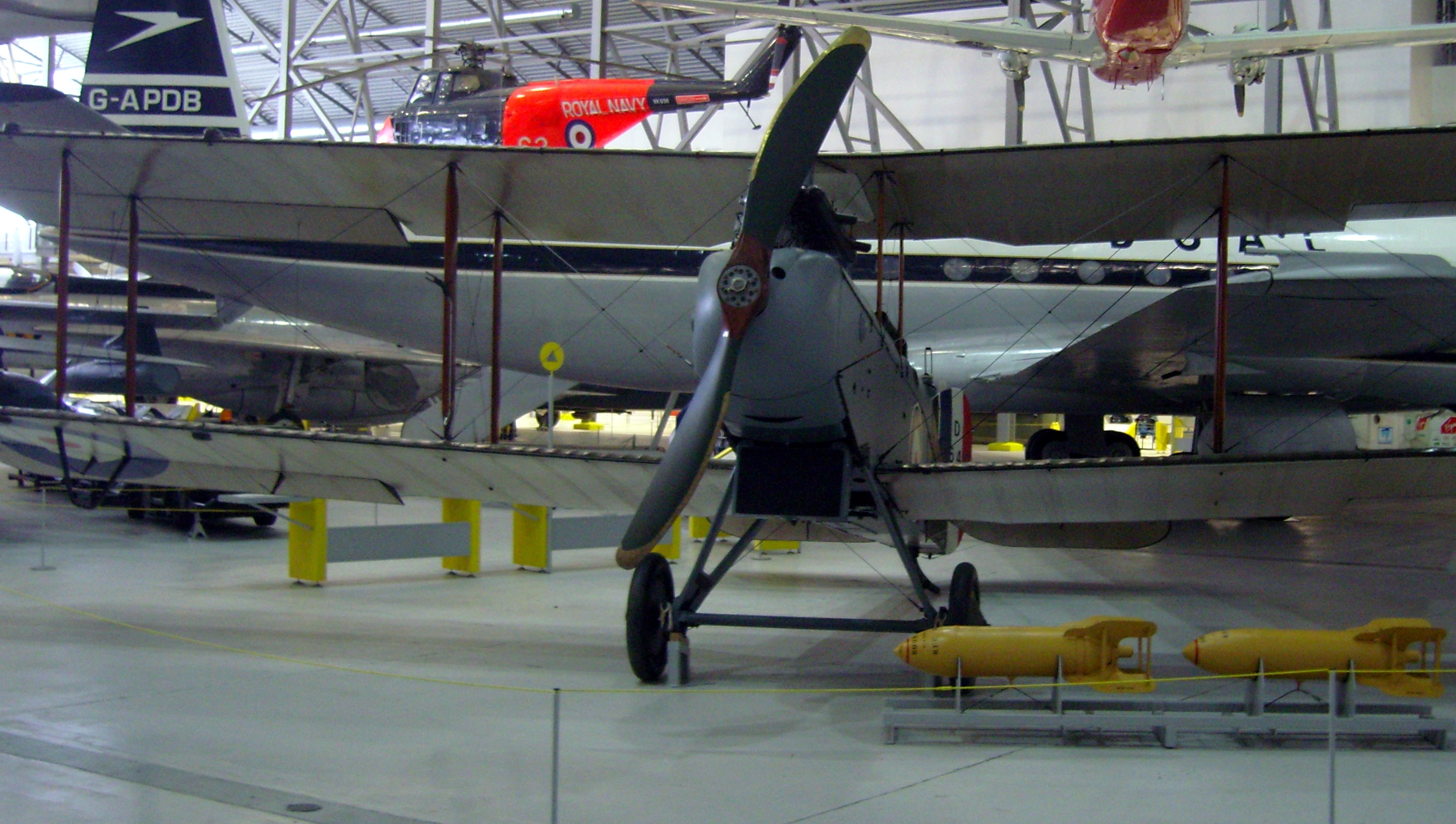 Photographed at the Military Vehicle Show, Duxford, 6th June 2010. Photo ref; SNC 13550